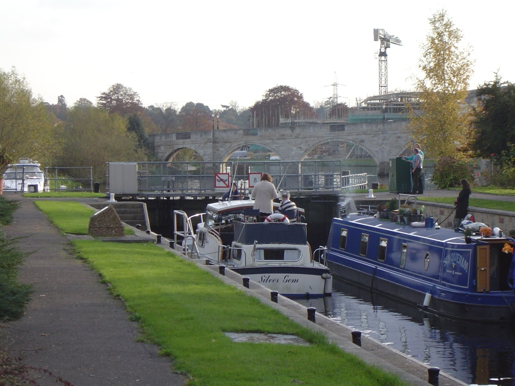 Chertsey Lock River Thames (copy own work from English Wikipedia)